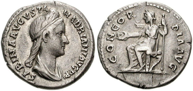 Sabina. Augusta, AD 128-136/7. AR Denarius (18mm, 3.34 g, 6h). Rome mint. Struck circa AD 128-134. Diademed and draped bust right Concordia seated left, holding patera and scepter; cornucopia below throne. RIC II 399a (Hadrian) var. (without cornucopia); RSC 24 var. (without cornucopia).